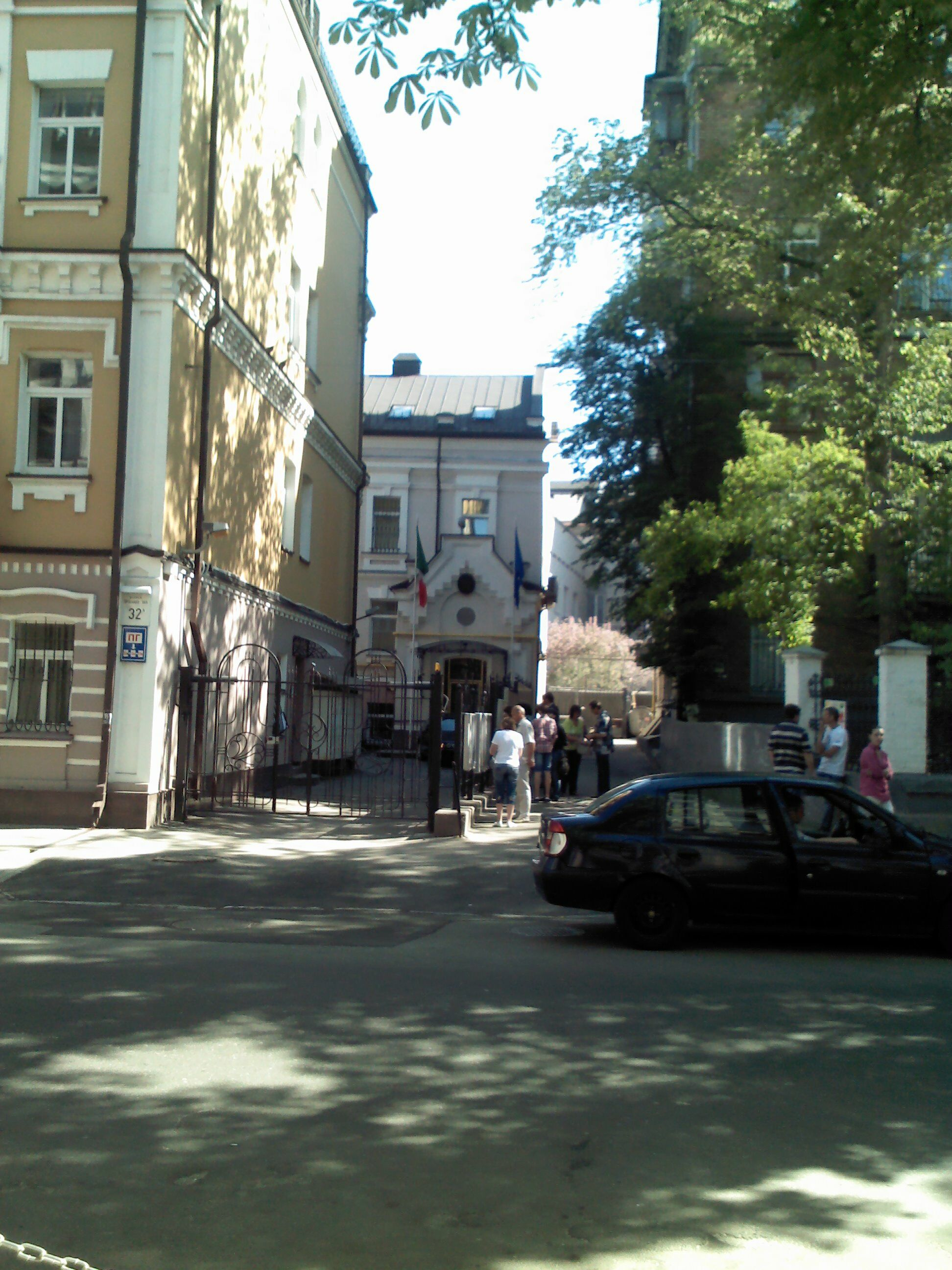 Embassy of Italia in Kyiv.jpg